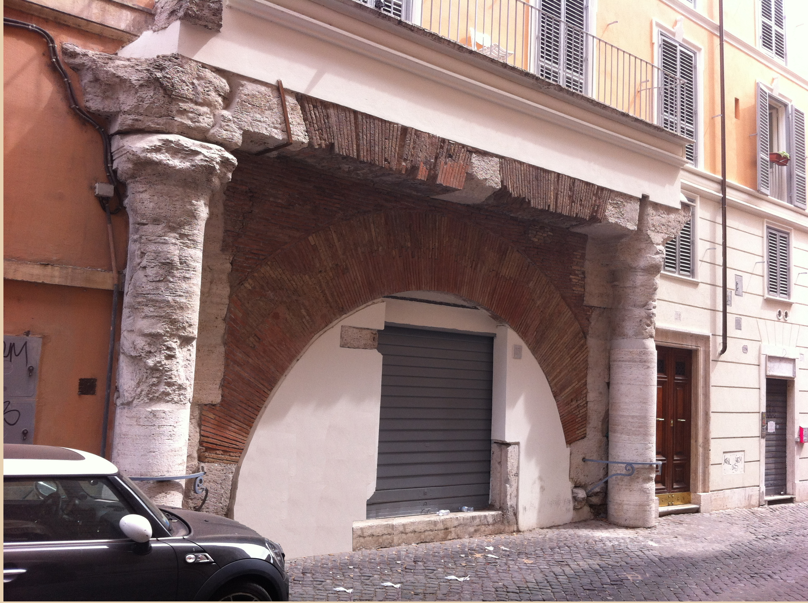 Ancient Roman arch at Via di Santa Maria de' Calderari 25, Roma.